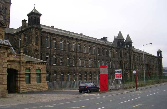 Dalton Mills - Dalton Lane To paraphrase Giles & Goodall - Yorkshire Textile Mills 1770-1930: Large steam powered worsted mill begun in 1866. Originally three ornate mills - Tower Mill 1866 (four storeys + attic, nine bays), Genappe Mill, 1868 (3 storeys, 38 bays) and New Mill 1869 (three storeys 33 bays). Also included a long shed, two engine houses, boiler houses, a very ornate chimney (now shortened) and offices. The Mill was owned by I & I Craven (later J & J due to connotations with the other initials during WWI). In 1904 the large double beam engine wrecked itself and two new houses were built for Pollit & Wigzell tandem compound engines. Description added by Chris Allen at photographer's request.